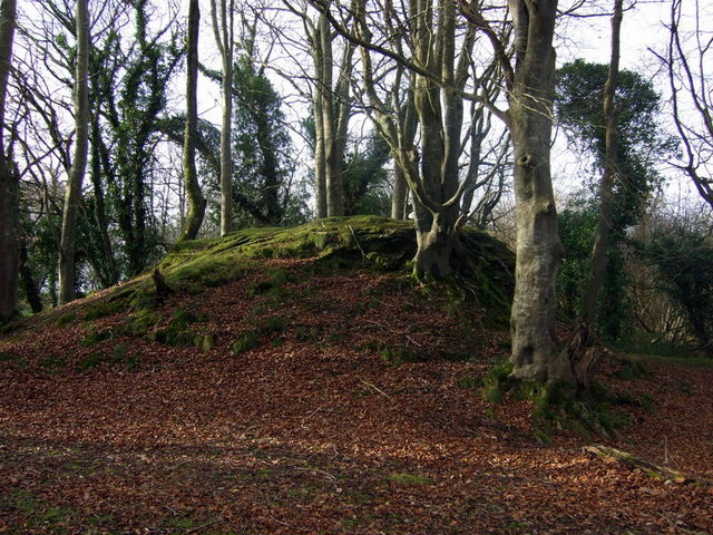 Motte, Castell Nanhyfer This was the eastern motte, separated from the bailey by a ravine. For an excellent description of the castle